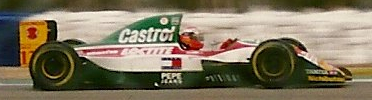 British Grand Prix 1993